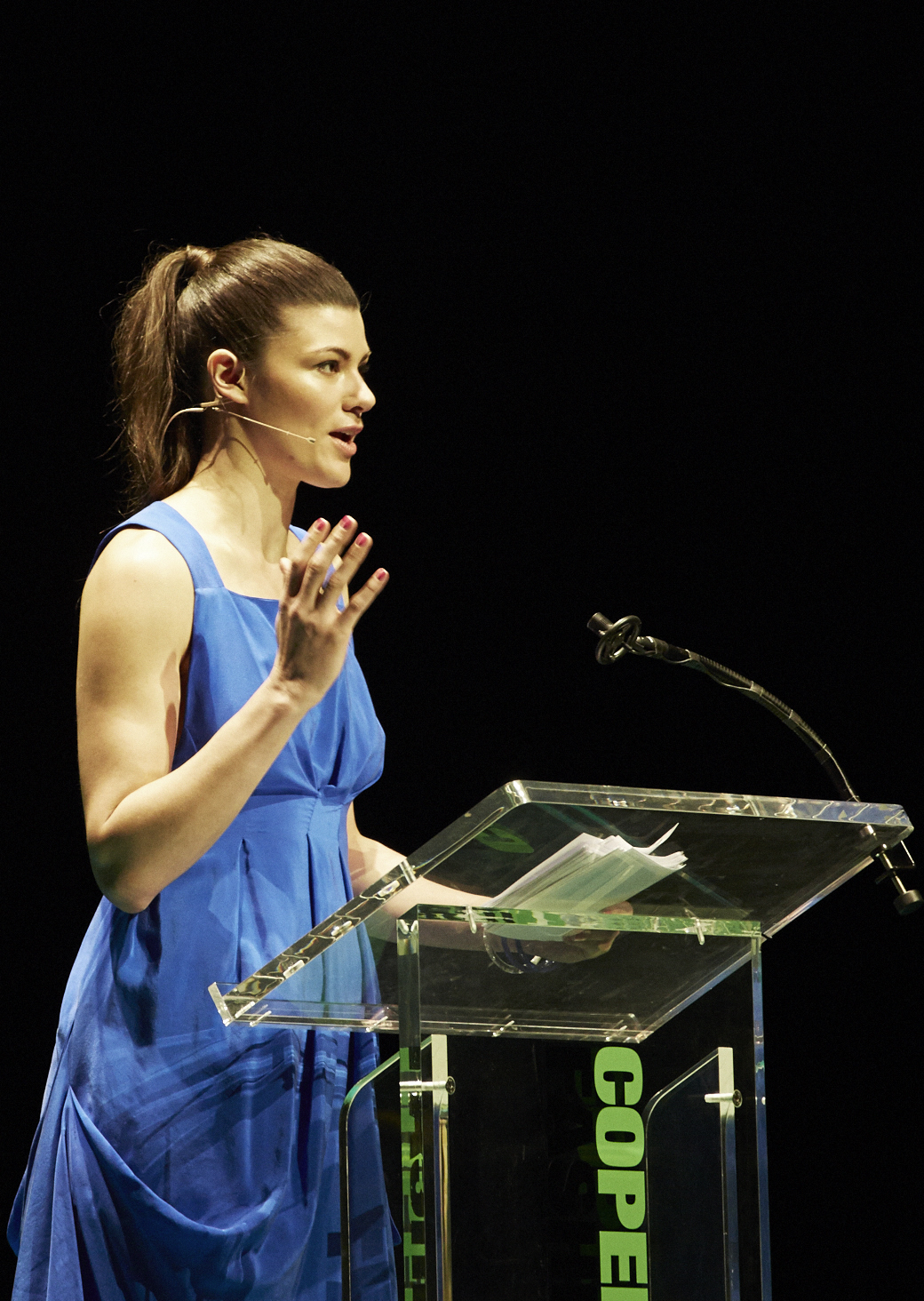 American environmentalist, model, and entrepreneur Summer Rayne Oakes at the 2014 Copenhagen Fashion Summit.